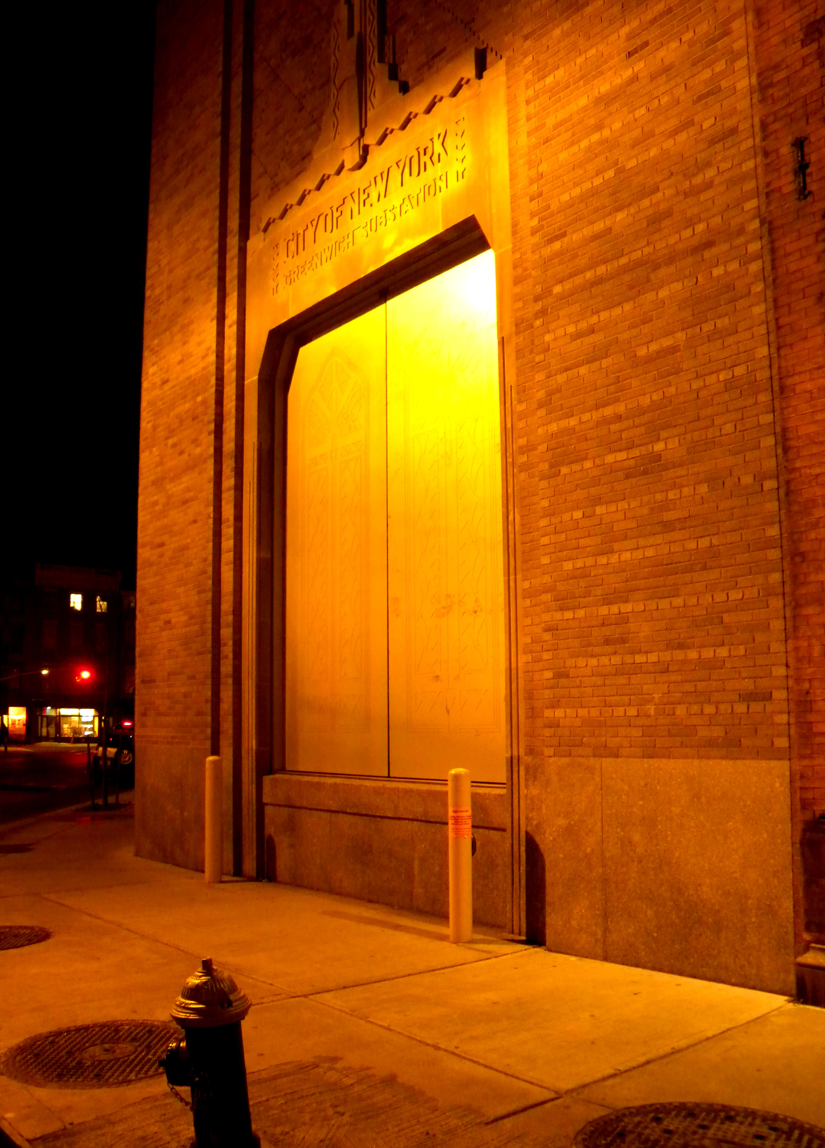 Looking north at power substation of IND Eighth Avenue Line at the head of Greenwich Avenue.